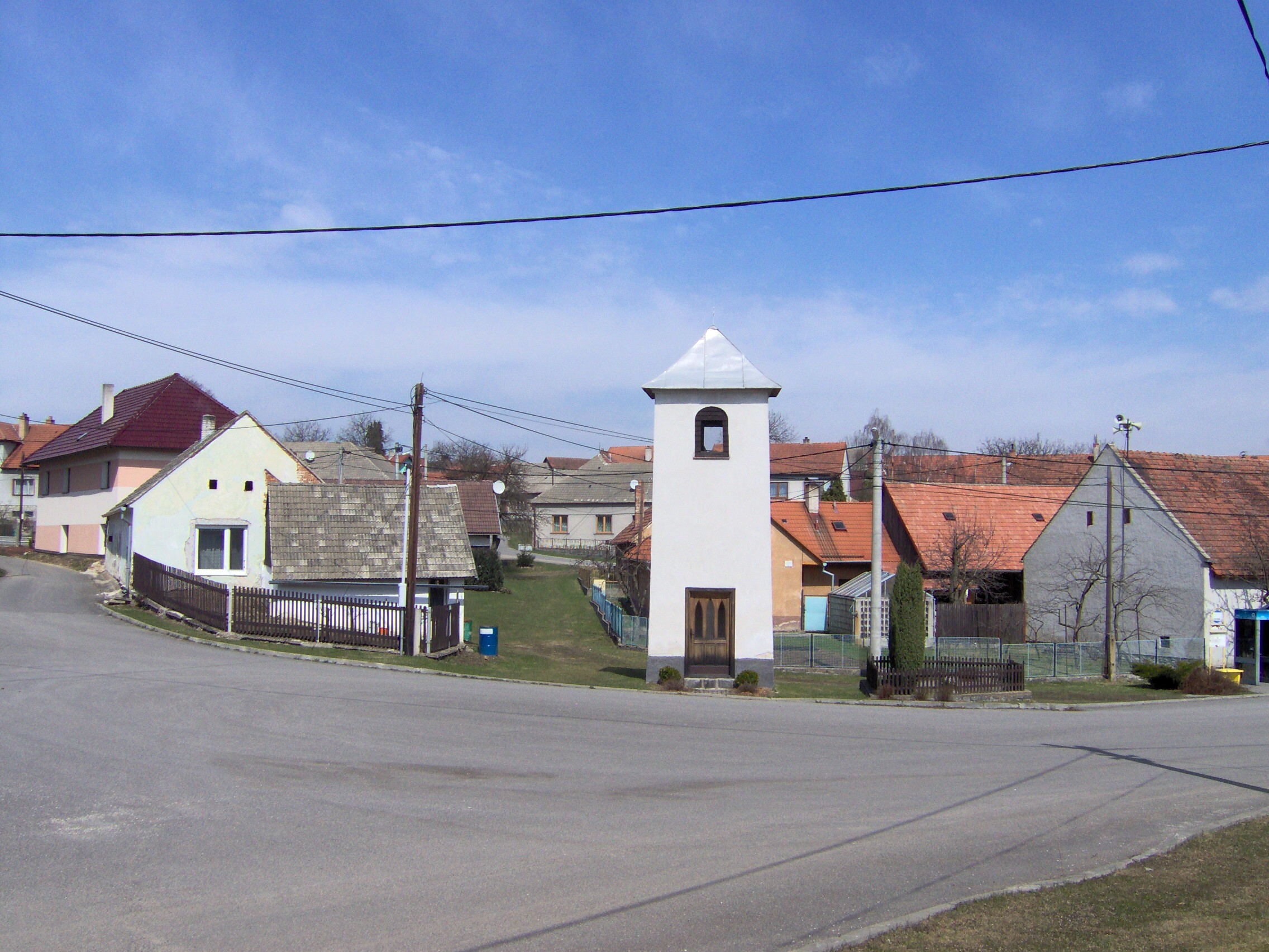 Skřinářov village, Žďár nad Sázavou District, Czech Republic